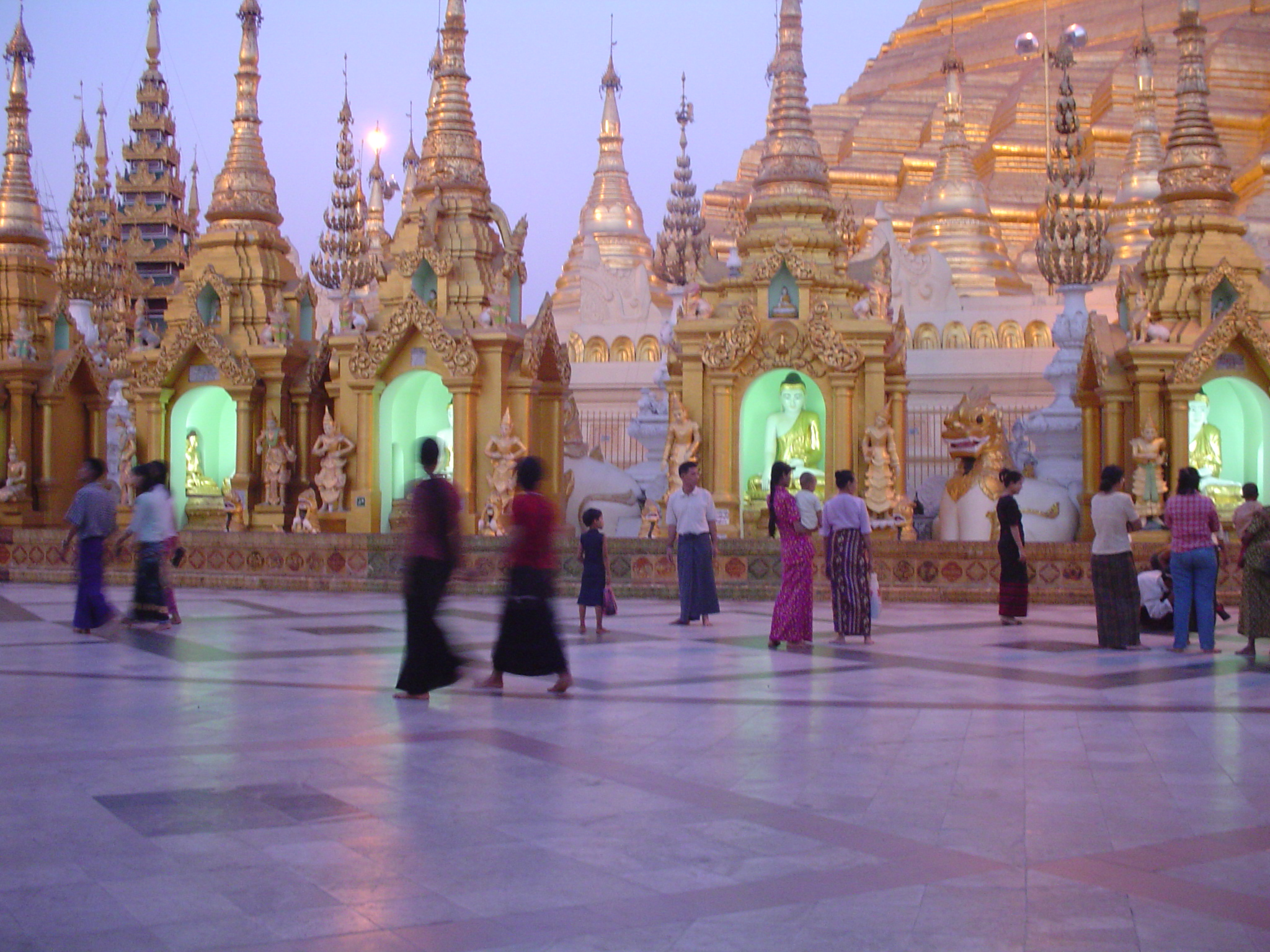 The Shwedagon Pagoda officially titled Shwedagon Zedi Daw ([ʃwèdəɡòun zèdìdɔ̀]), also known as the Golden Pagoda, is a 98-metre (approx. 321.5 feet) gilded stupa located in Yangon, Burma.